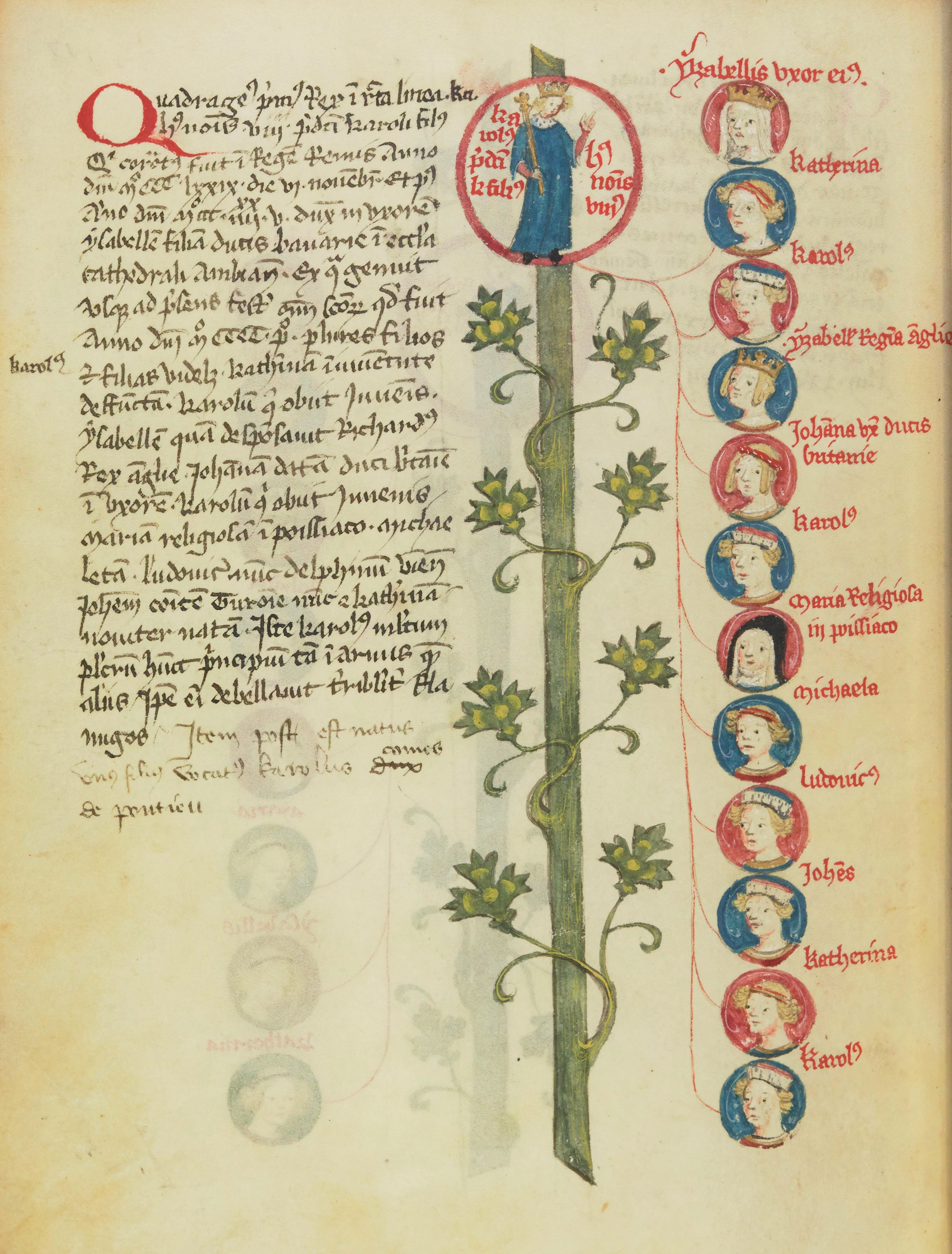 Charles VI of France (detail from the family tree of Charles VI of France as depicted in Arbor genealogica regum Franciae).